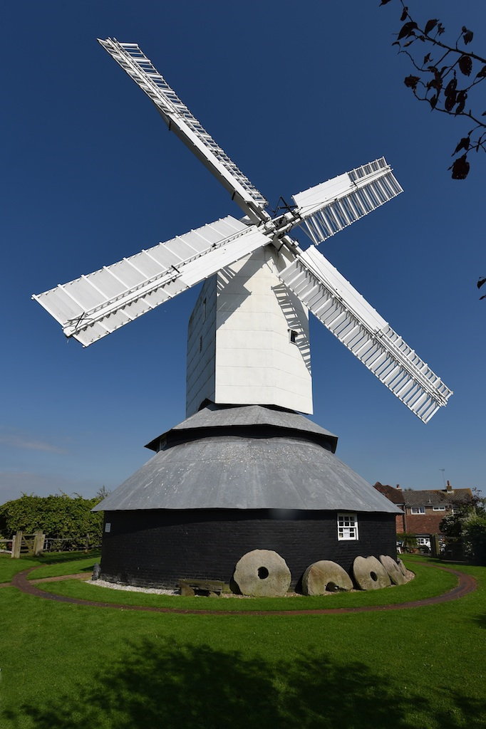 The windmill at Windmill Hill, near Herstmonceux East Sussex, 2018